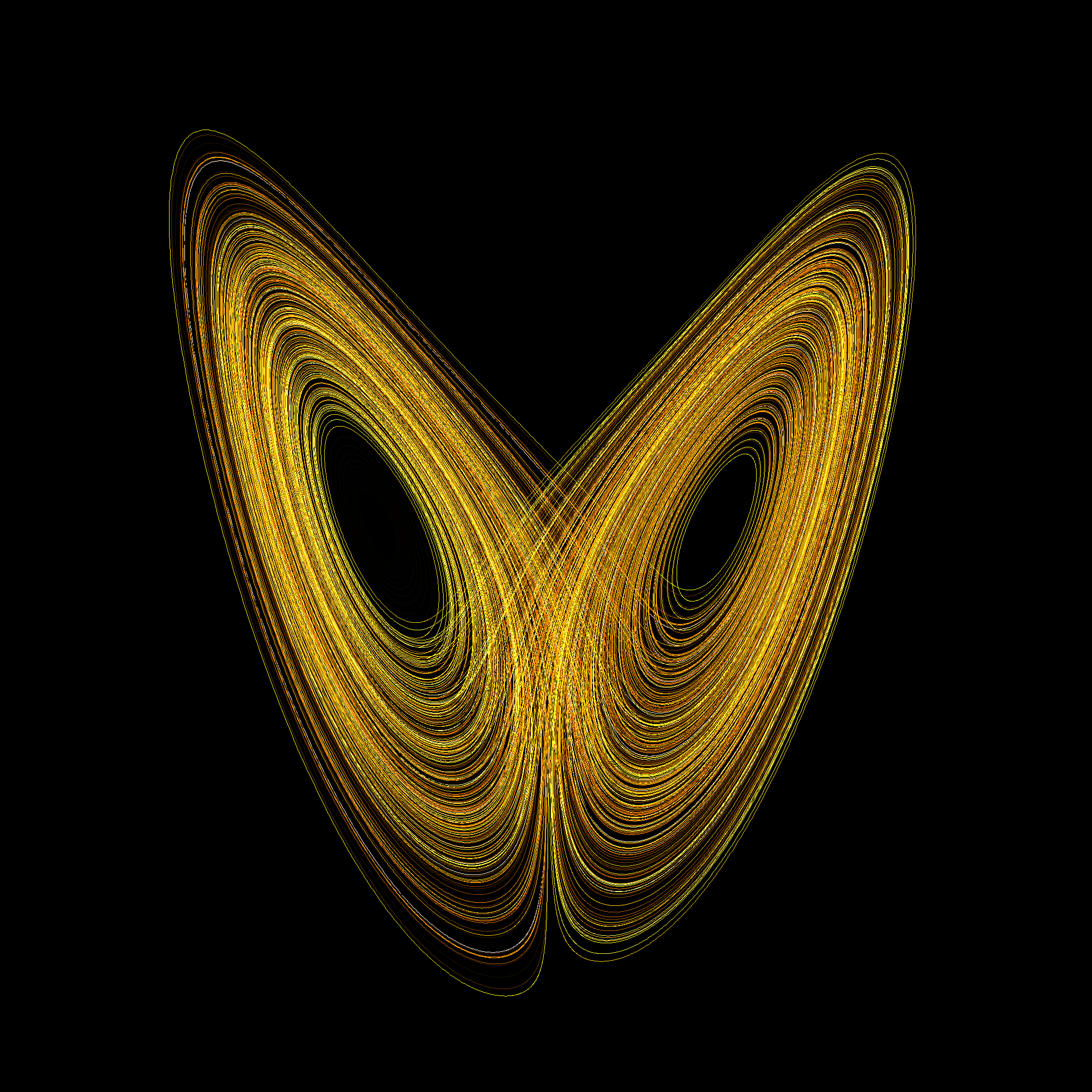 An icon of chaos theory - the Lorenz attractor. Projection of trajectory of Lorenz system in phase space with "canonical" values of parameters r=28, σ = 10, b = 8/3 (or 2.666667) and integration timestep 0.001.